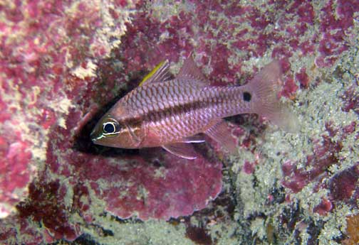 Apogon kallopterus. iridescent cardinalfish